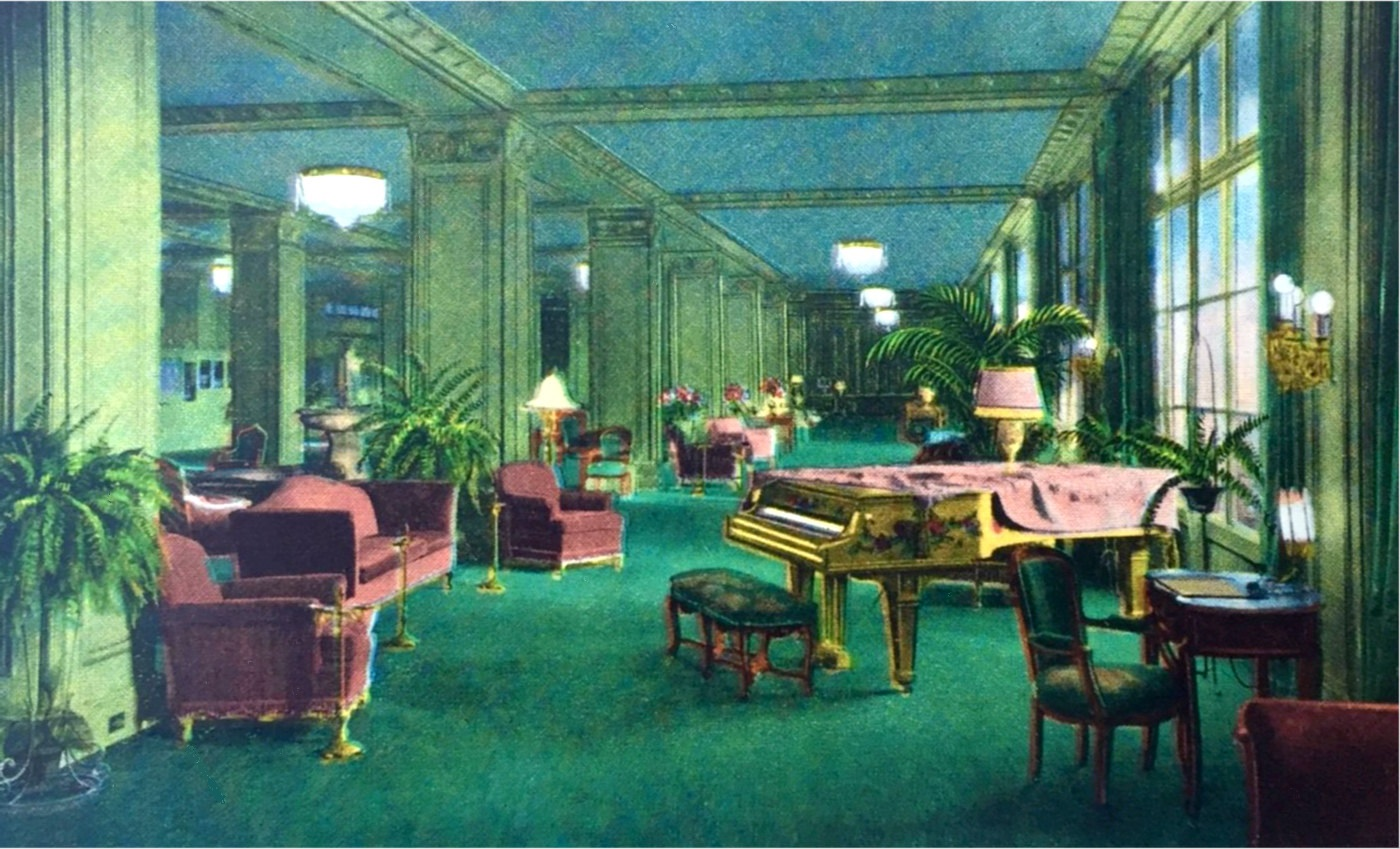 Image of the Ambassador Hotel lobby from a postcard. This appears to be from the 1920s or 19303 by the decor.